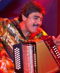 Celso Piña @ Salón de Baile. Fusion Festival 2012 Germany.